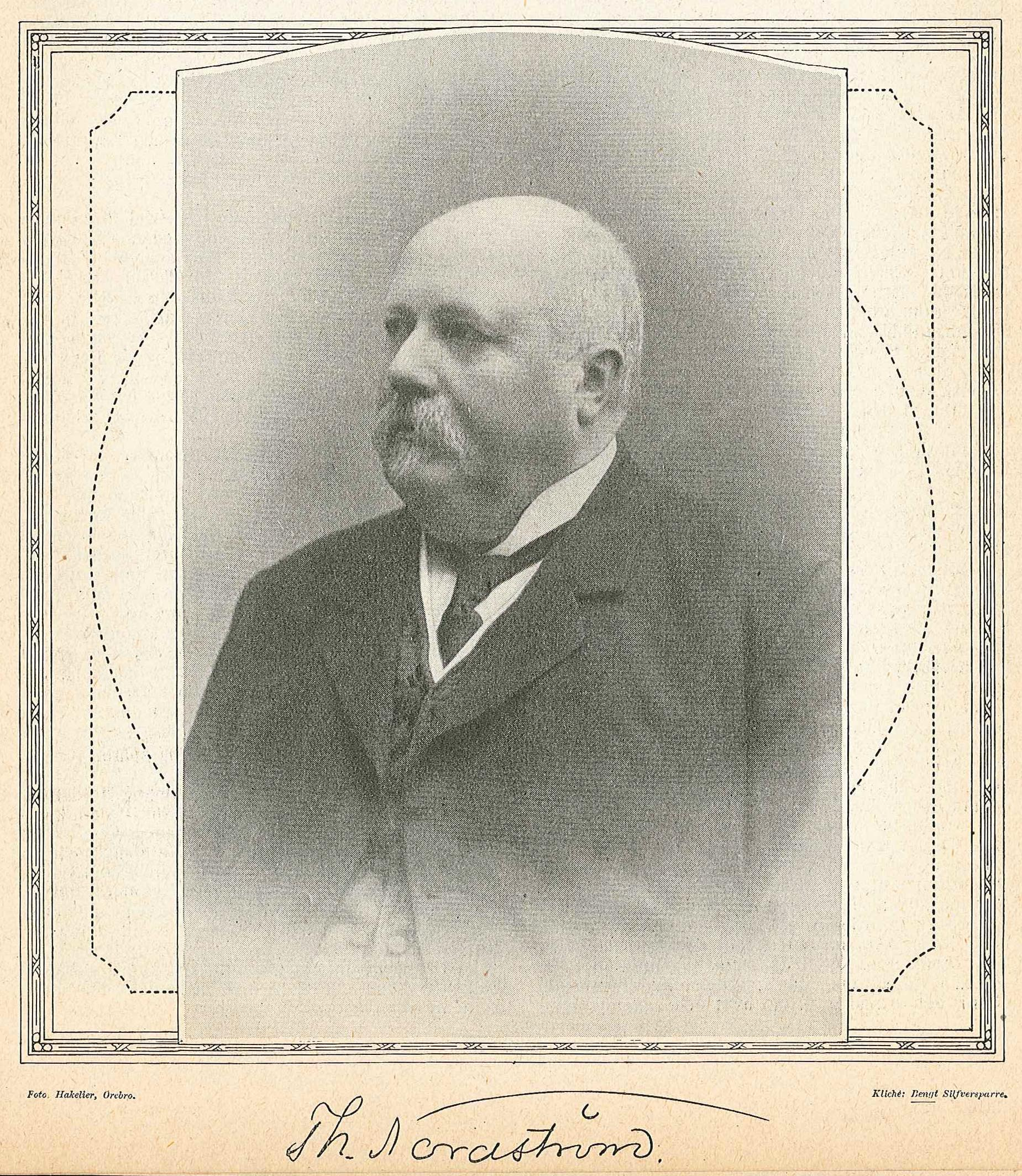 Theodor Nordström (1843-1920), Swedish geologist, member of parliament and county governor ("landshövding") of Örebro County.